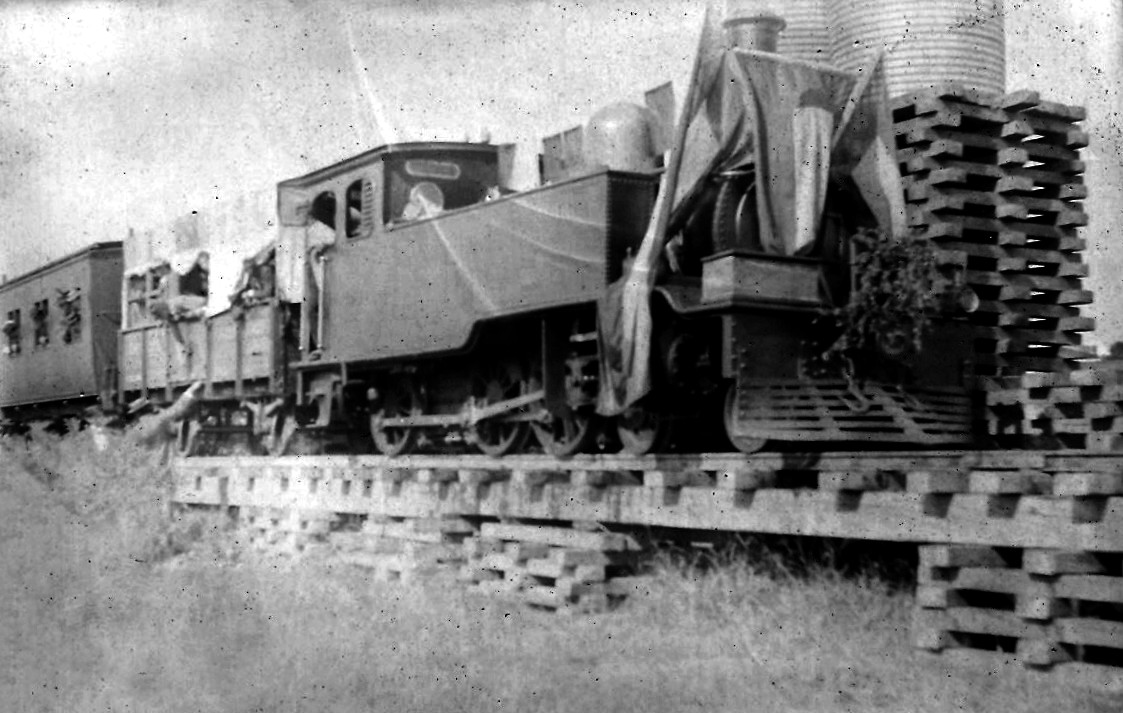 PPR 35 Tonner 4-6-0T Portuguese dressed up in Vierkleure for the inauguration of the Pretoria-Pietersburg Railway.